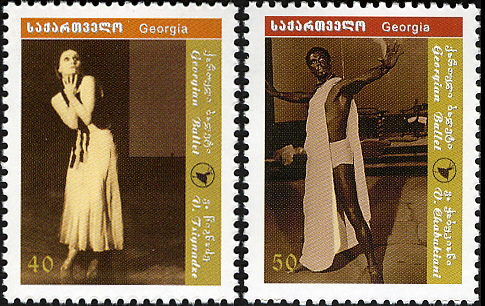 Stamps of Georgia "The Georgian ballet", 2005